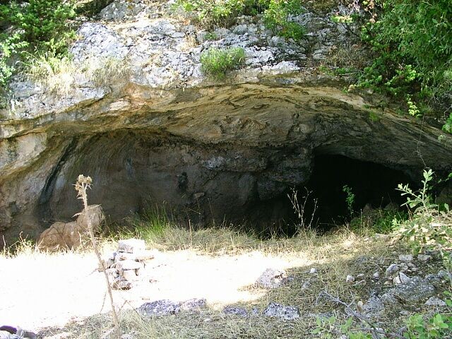 Brač Island, Croatia